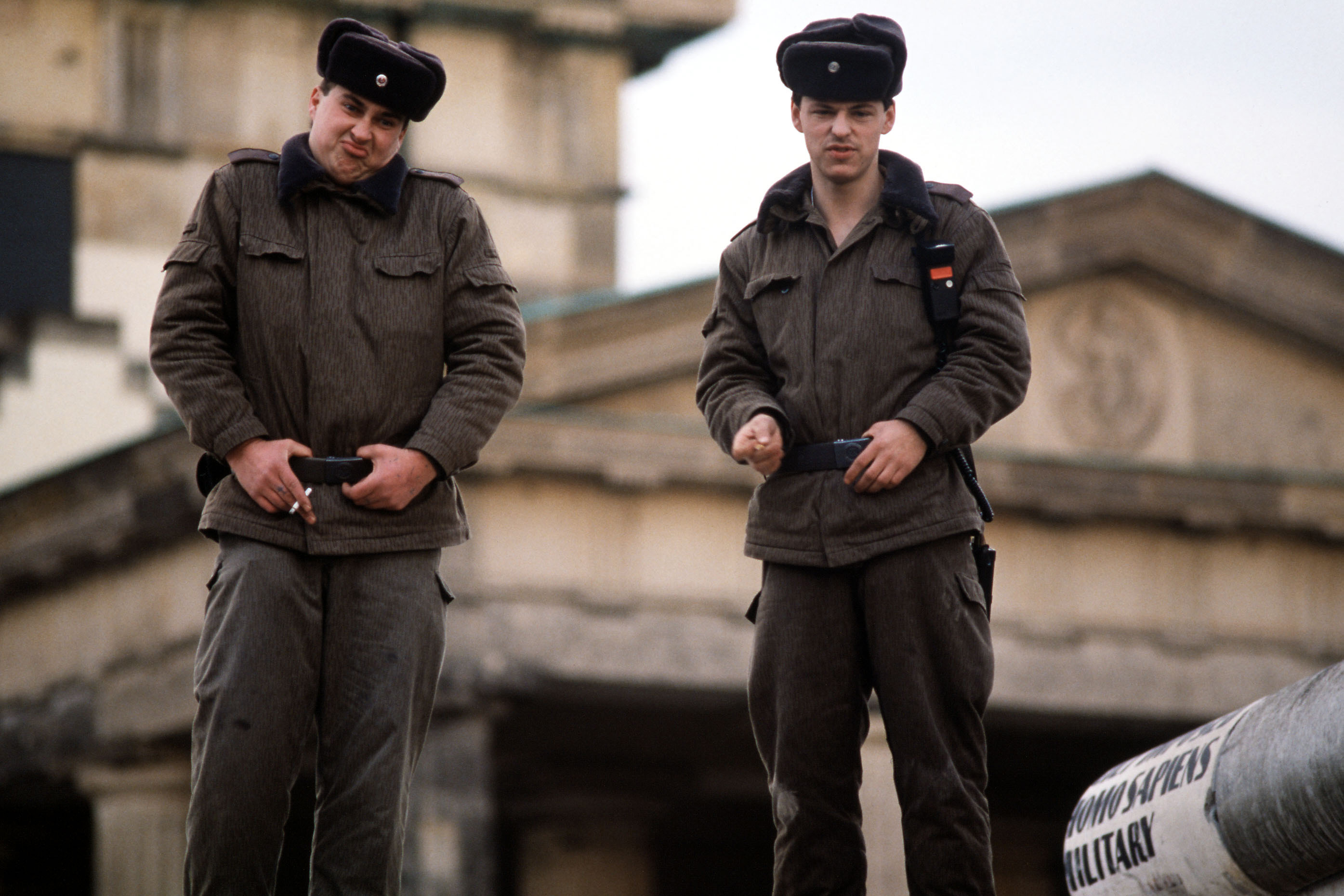 East German guards stand atop the Berlin Wall beside the Brandenburg Gate following the official opening of the gate on December 22nd.